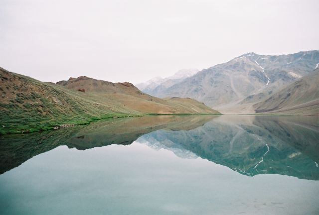 The lake in it's silent splendour